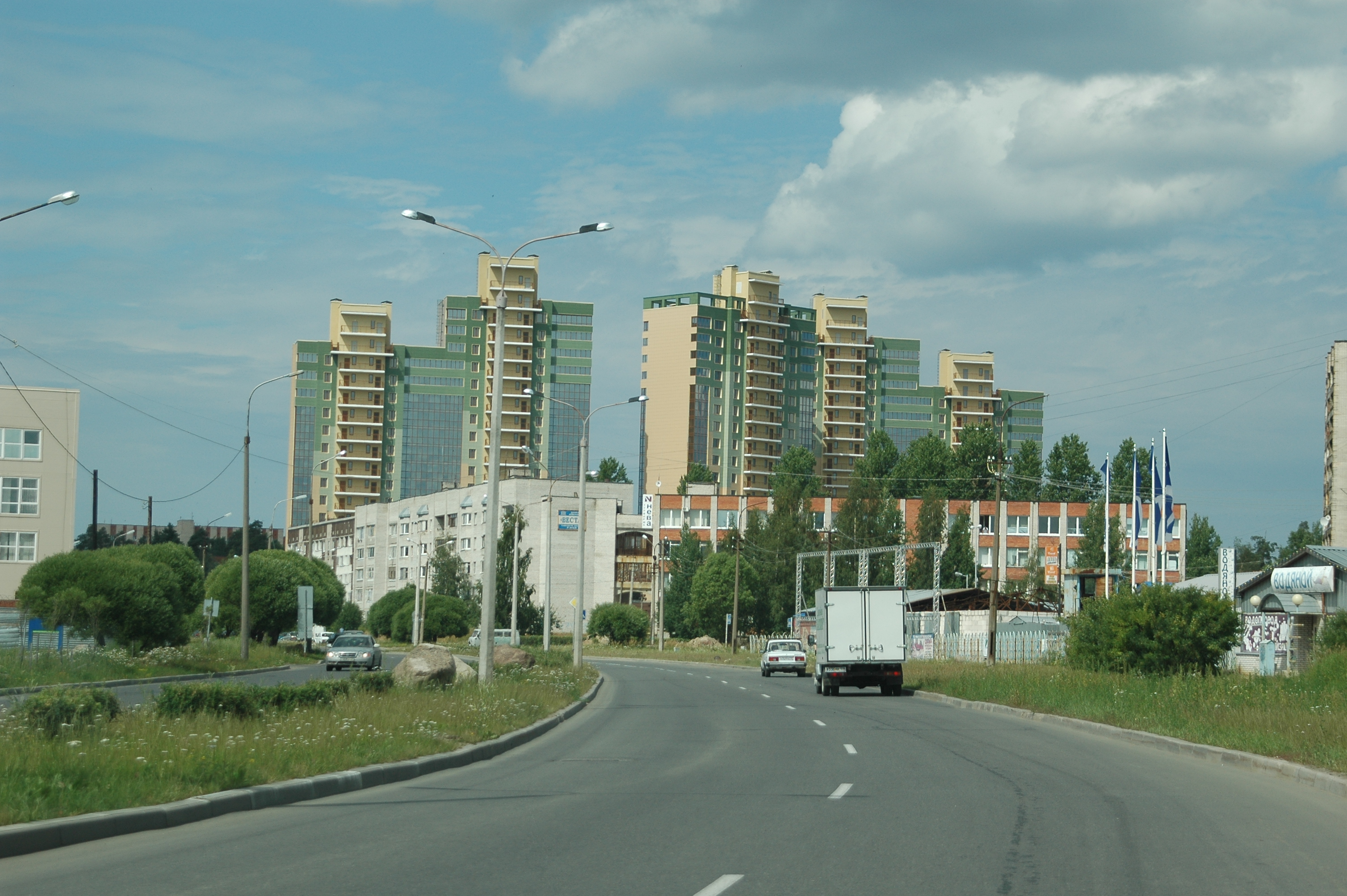 Sosnovy Bor, Leningrad Oblast, Russia